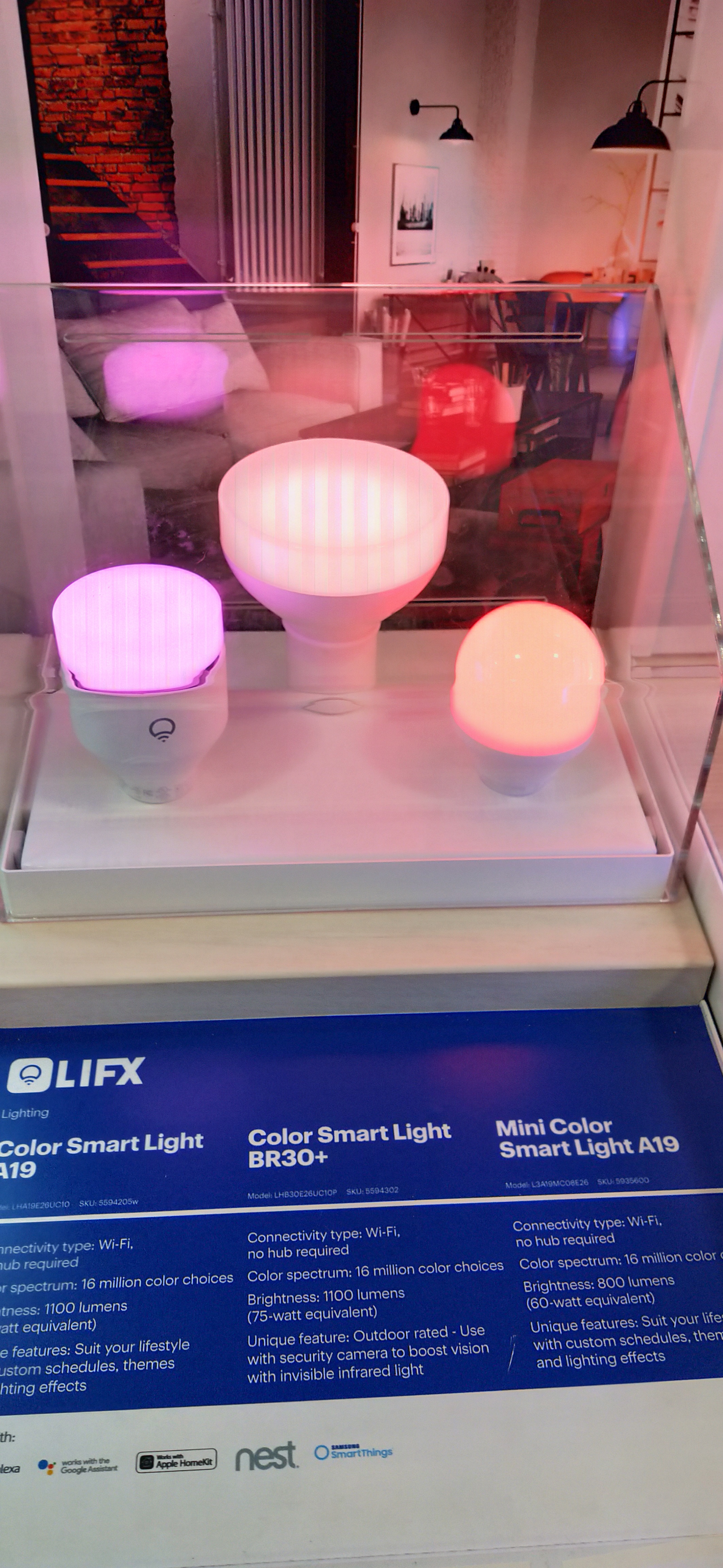 LIFX A19, BR30, and Mini from left to right